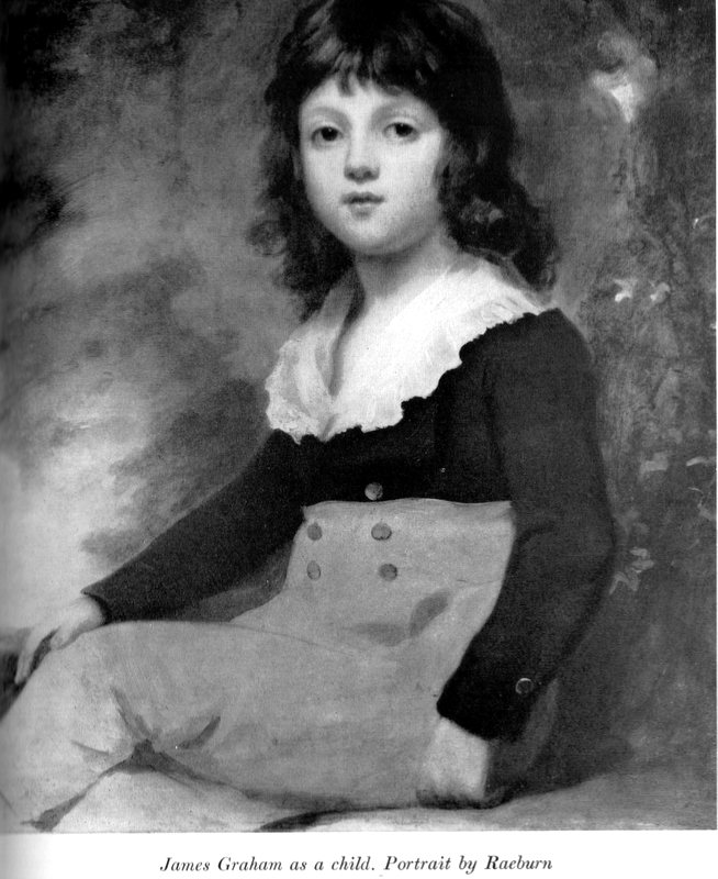 Photo of a painting of Sir James Graham circa 1800